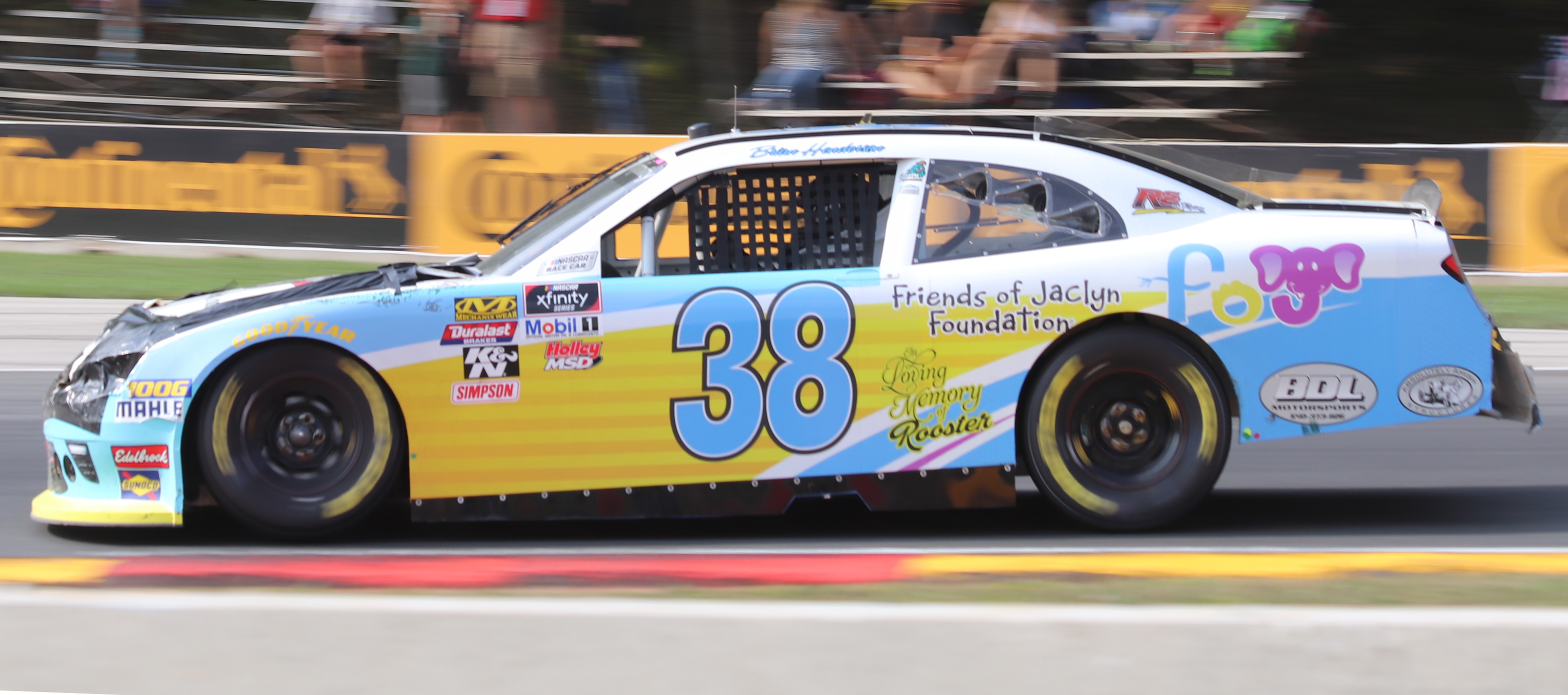 The Chevrolet Camaro of Brian Henderson (racing driver) at the NASCAR Xfinity Series Johnsonville 180.